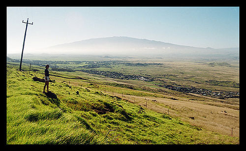 Maunakea view from Kohala